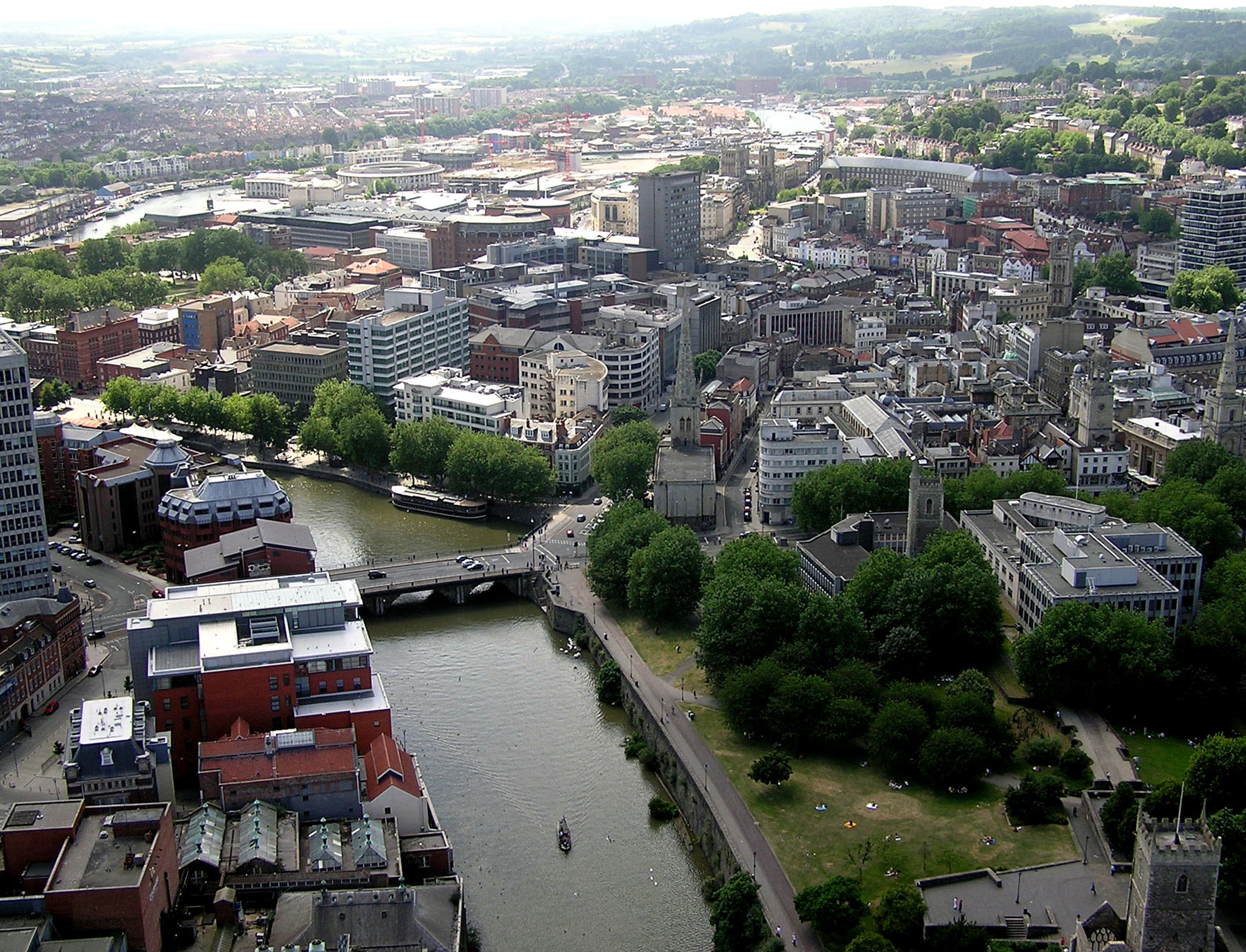 The River Avon flows through the centre of Bristol, England. Portions of the true river can also be seen top left, and towards the top of the picture at centre right Centre left is Bristol Bridge, with four cars on it. In the bottom left corner are the red-tiled roofs of the former Georges Brewery, bordering the river. The buildings are now flats. Bottom right is the greenery of Castle Park with people sunbathing. The hills at top right include Ashton Park where the Bristol Balloon Fiesta is held. The picture was taken from a tethered passenger balloon, 500 feet up.